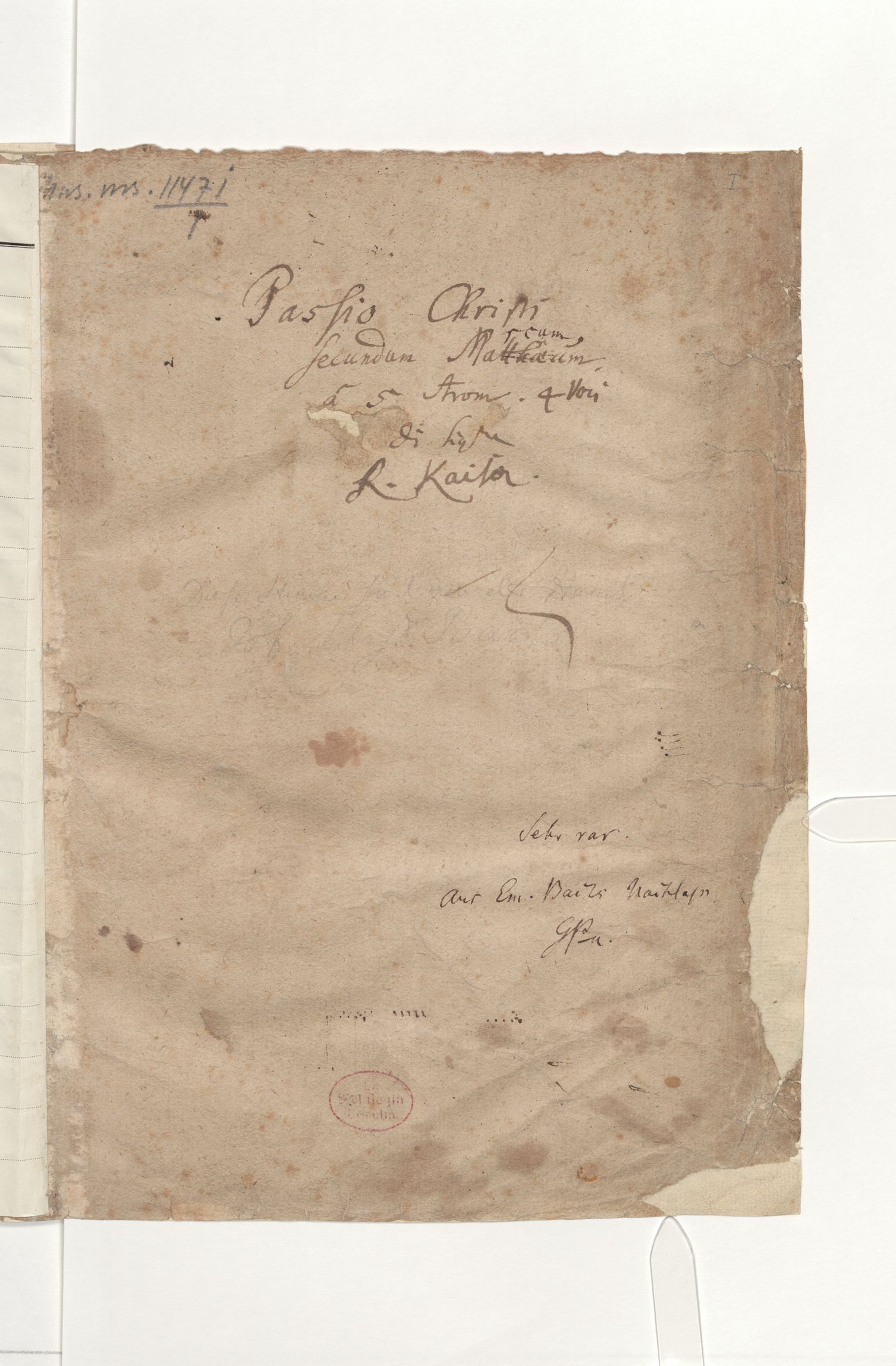 Cover page of source material D B Mus. ms. 11471/1 for Weimar St. Mark Passion pastiche (BWV deest, BC D 5a) at the Staatsbibliothek zu Berlin.